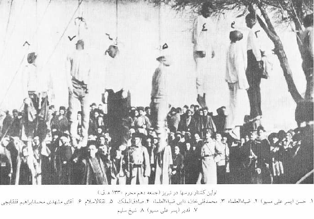 First Series of executions, Russian Invasion of Tabriz, 1911. From: right Hassan (son of Ali-misiu, Ziya-ol-olama, Mohammad Qoli-khan, Sadeq-ol-molk, Seqat-ol-eslam, Mashadi Ebrahim Qafqazchi, Qadir (son of Ali-misiu), and Shekh Salim. , هشت تن از اولین سری اعدامی‌ها بدست روس‌ها٬ شامل حسن (پسر علی مسیو)٬ ضیاالعلما٬ محمدقلی‌خان (دایی ضیاالعلما)٬ صادق‌الملک٬ ثقه‌الاسلام٬ آقای مشهدی محمد ابراهیم قفقازچی٬ قدیر (پسر علی مسیو)٬ و شیخ سلیم.